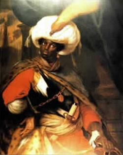 according to Gannibal: the Moor of Petersburg, by Hugh Barnes, hardback 2005. is this not picture of Abraham Hannibal